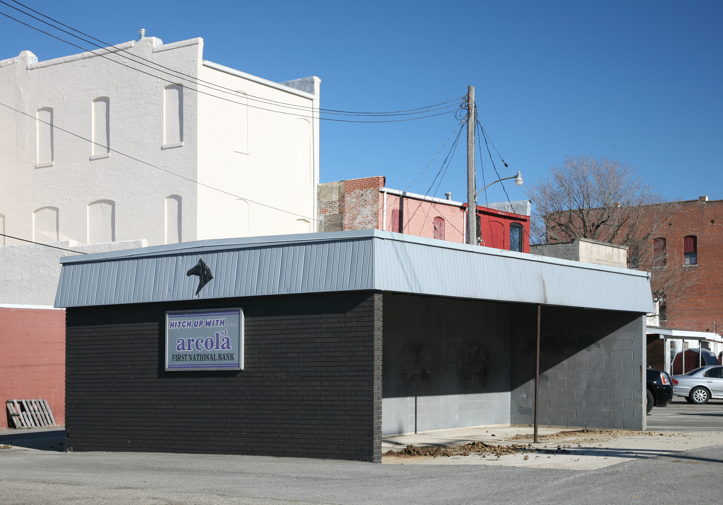 Hitching post (shed) for Amish Buggies on the parking lot of a bank in Arcola IL, an area with a significant Amish population.